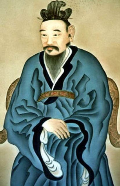 Choi Chi-won, famous Korean poet